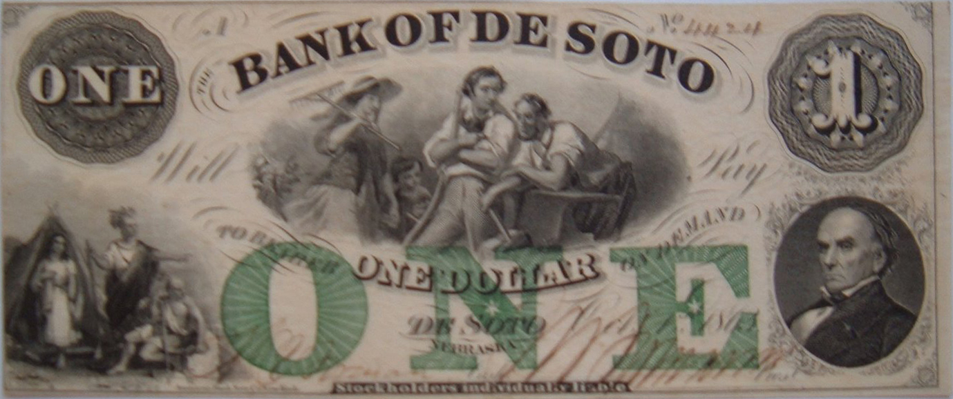 Banknote issued by a private company. The value of this note was maintained by a payment promise. See free banking. Text:"The Bank of De Soto will pay to bearer one Dollar on demand. Stockholders individually liable."